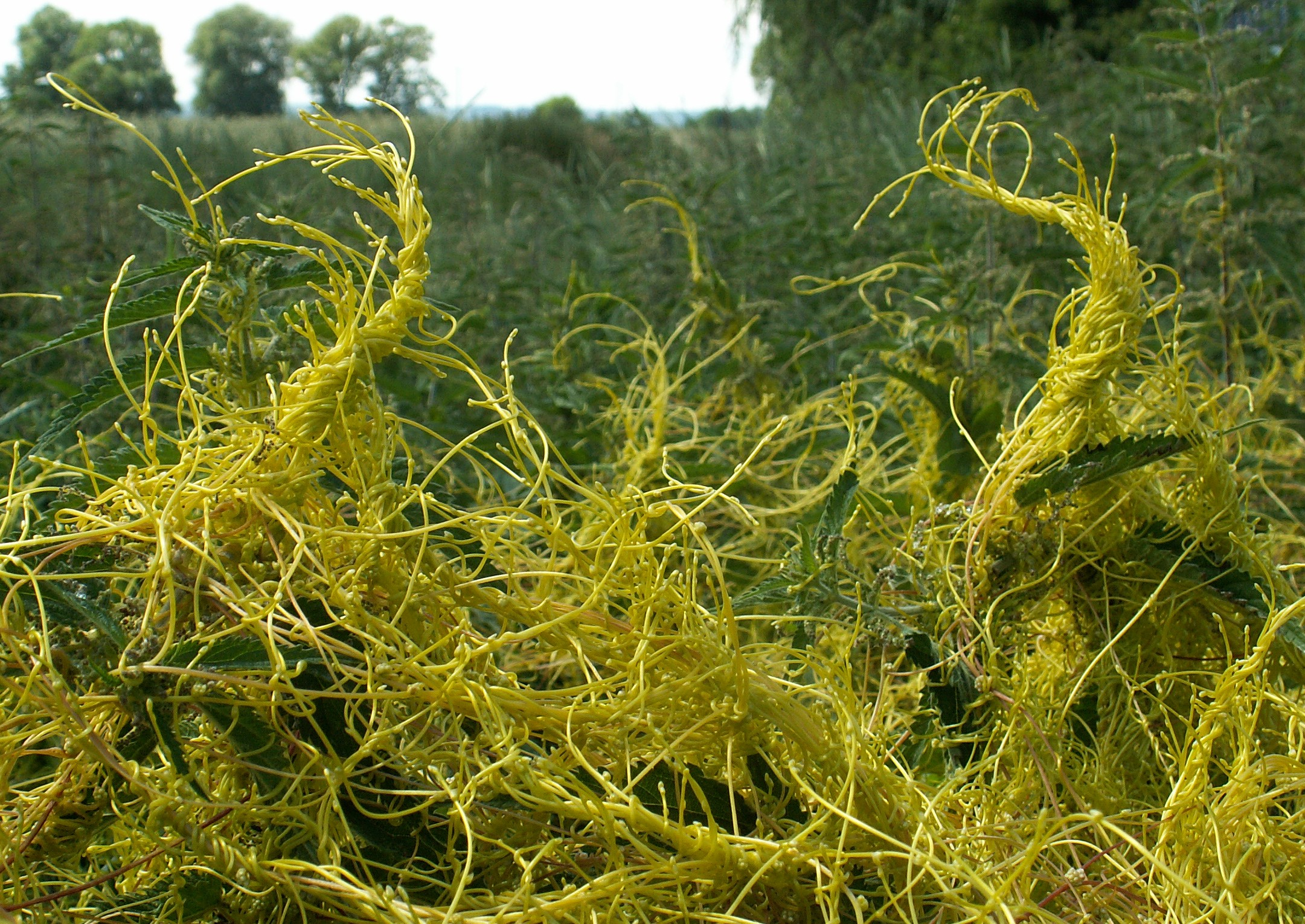 Cuscuta europaea on the Urtica dioica. Komarowo near Szczecin, NW Poland